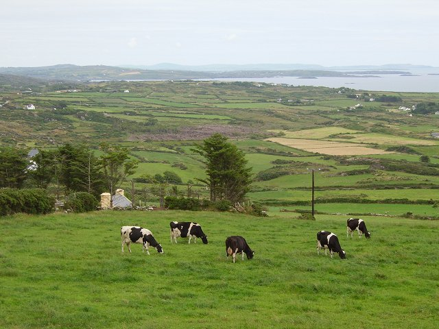 Friesians, Cloghanalehid Townland. Greener lower slopes of Knocknamaddree with grazing dairy cattle.